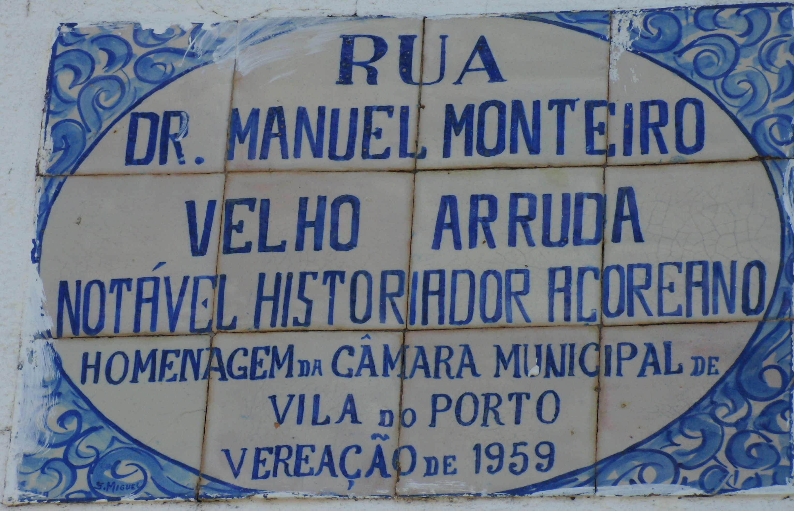 An azulejo panel commemorating the Dr. Manuel Monteiro Velho Arruda (Azorean historian) by the municipal council of Vila do Porto, in the civil parish of Vila do Porto, municipality of Vila do Porto (Azores), Portugal